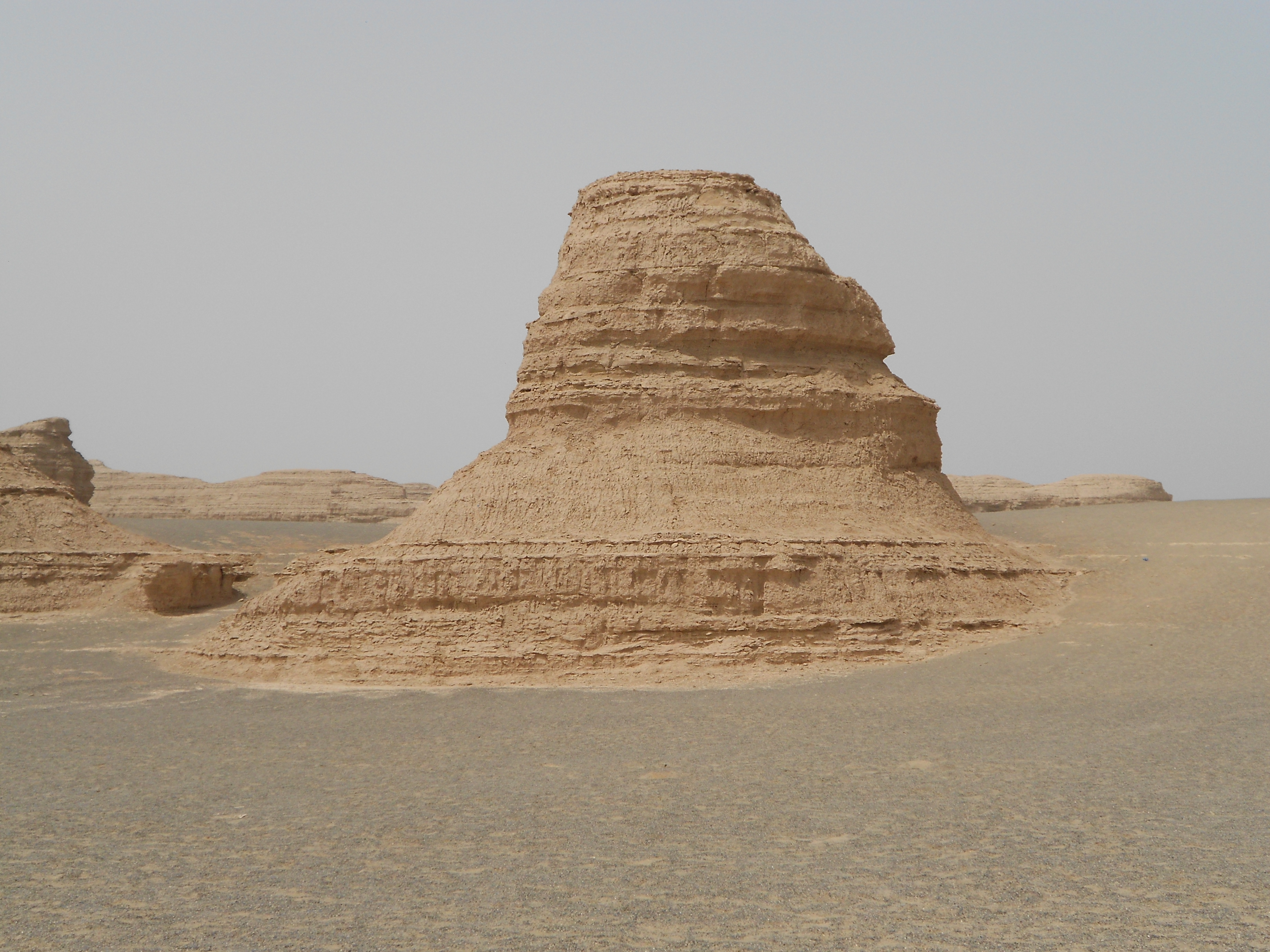 Desert landscape and rock formations in Dunhuang Yardang National Geopark — in Xinjiang, western China.